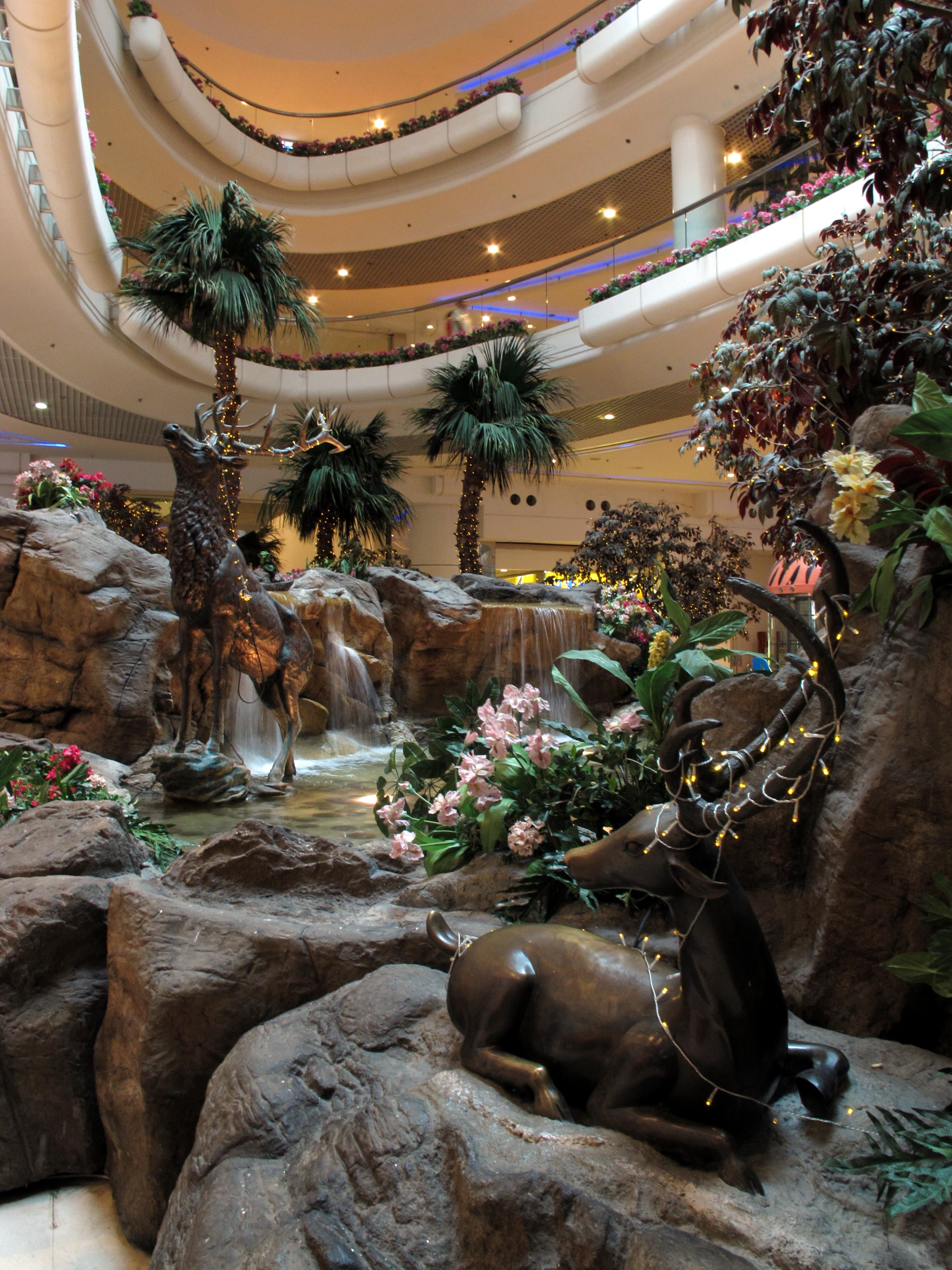 Discovery Park GF Garden